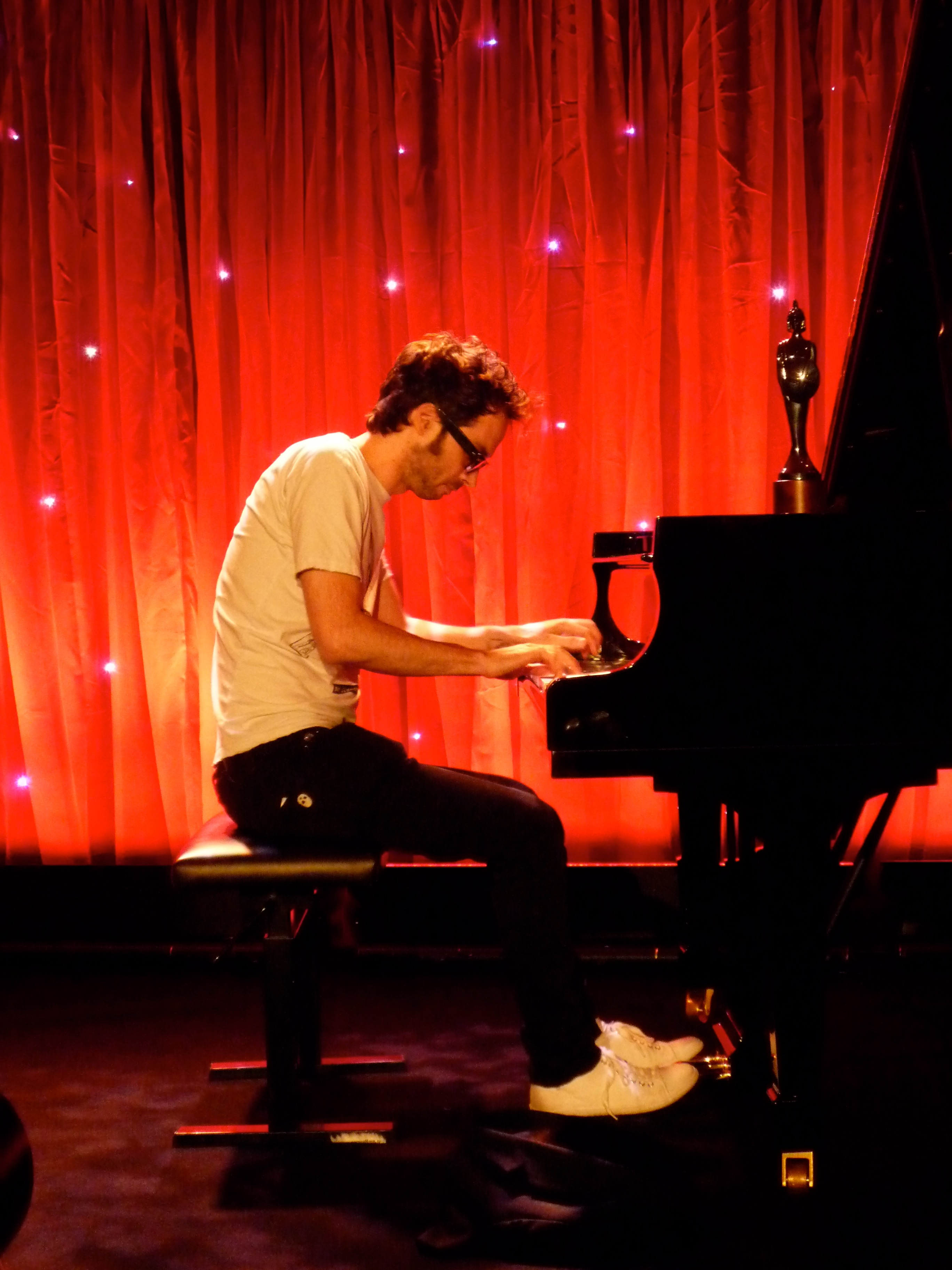 James Rhodes, classical pianist, performs at the Classical Brits Nominations Launch at the Mayfair Hotel in London, UK